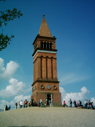 Tower on top of Himmelbjerget, hill in Denmark between Silkeborg and Ry